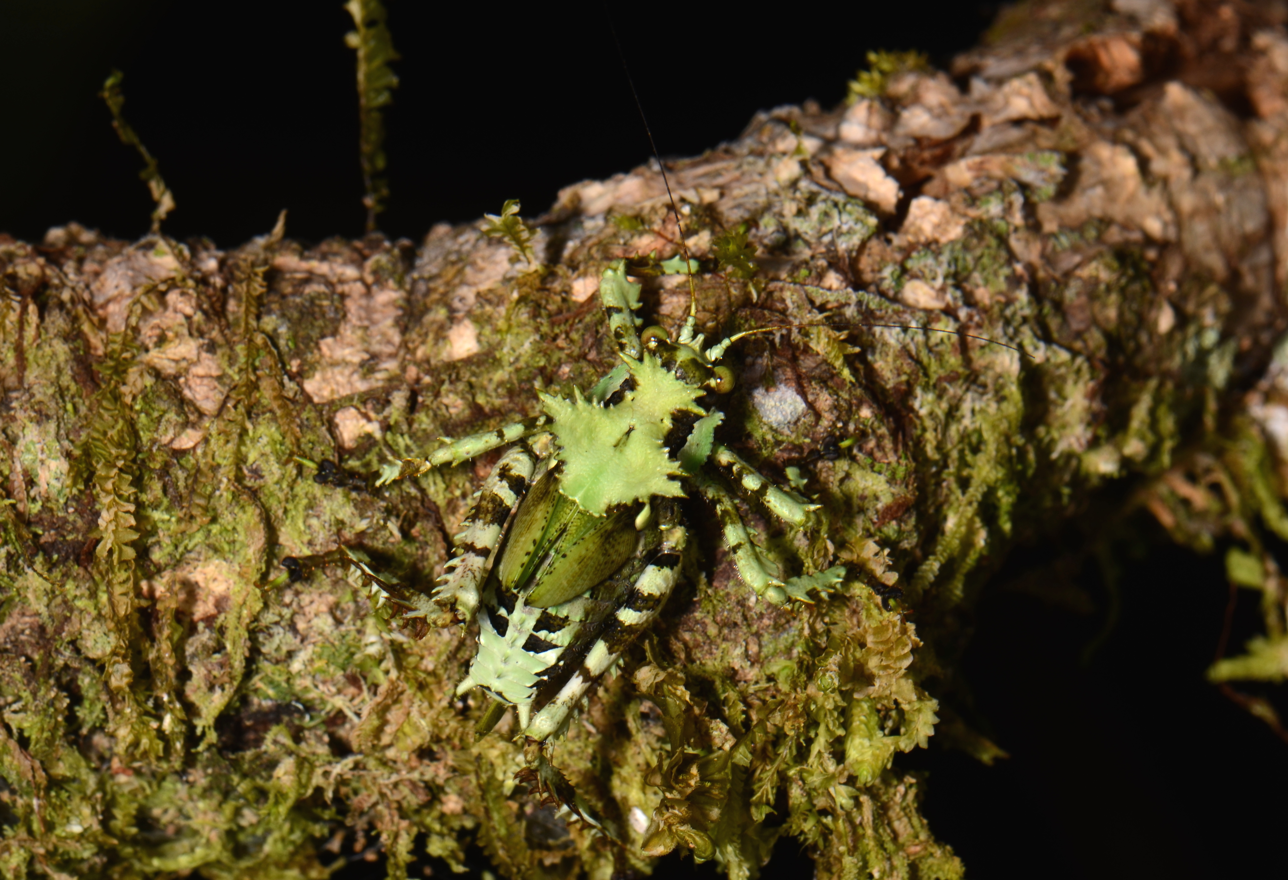 It sat on a leaf of a large fallen tree, I assume this species spends a lot of time high up in the tree. Searched all the tree trunks in the neighborhood but found no other specimen. Thanks to Alexey Yakovlev for ID